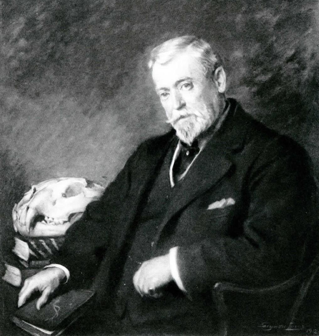 A portrait of Rowland Ward